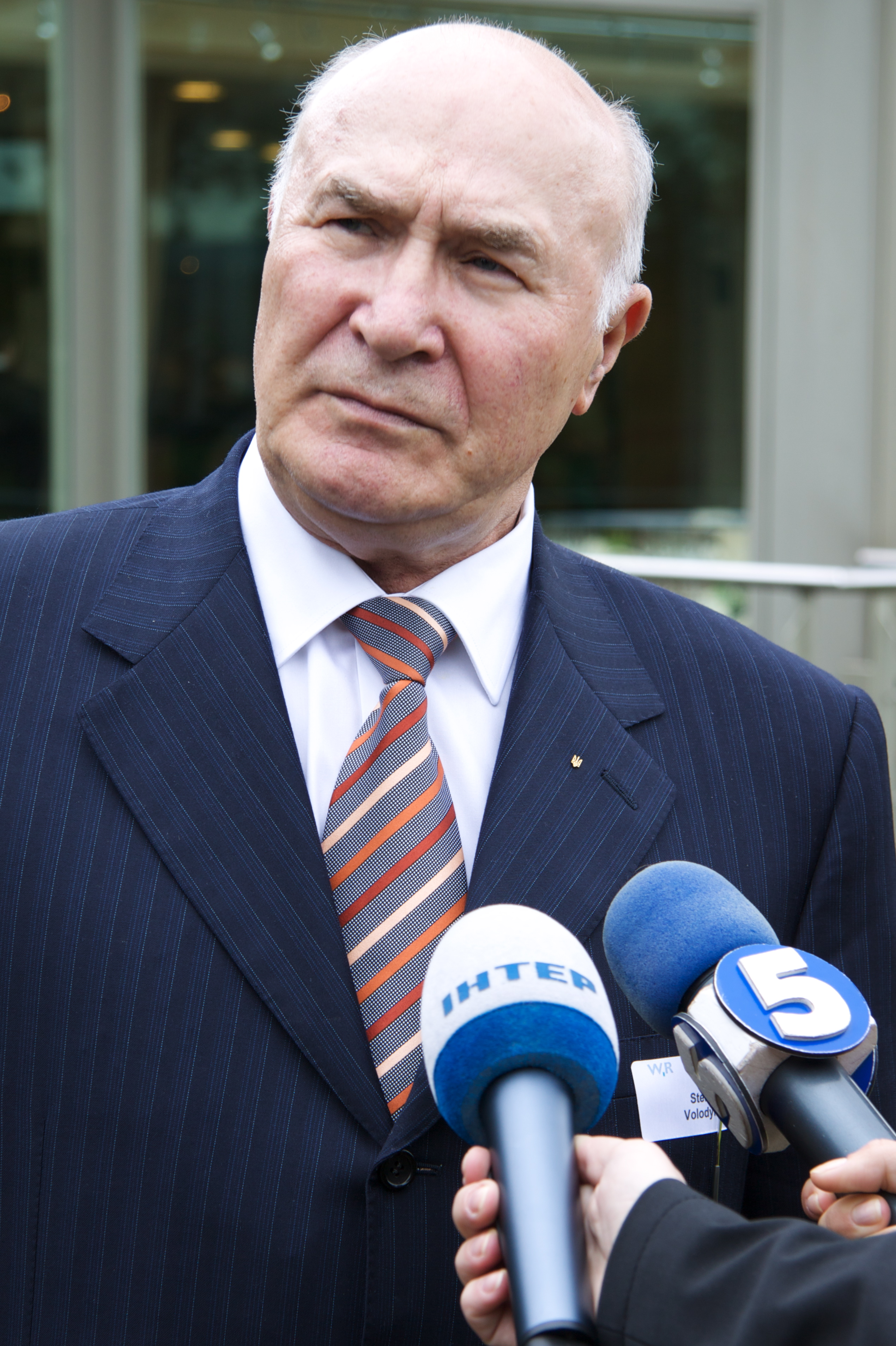 Volodymyr Stelmakh, Governor of the National Bank of Ukraine